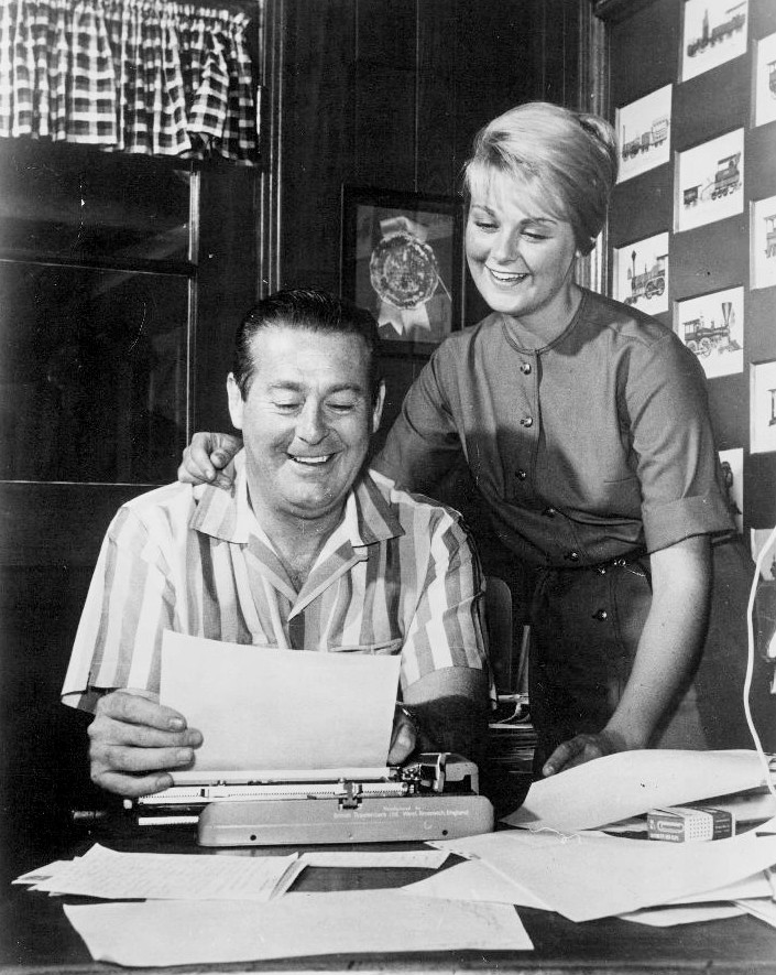 Photo of Don DeFore and his daughter, Penny, appearing in the play, Generation, at the Pheasant Run Playhouse in St. Charles, Illinois.